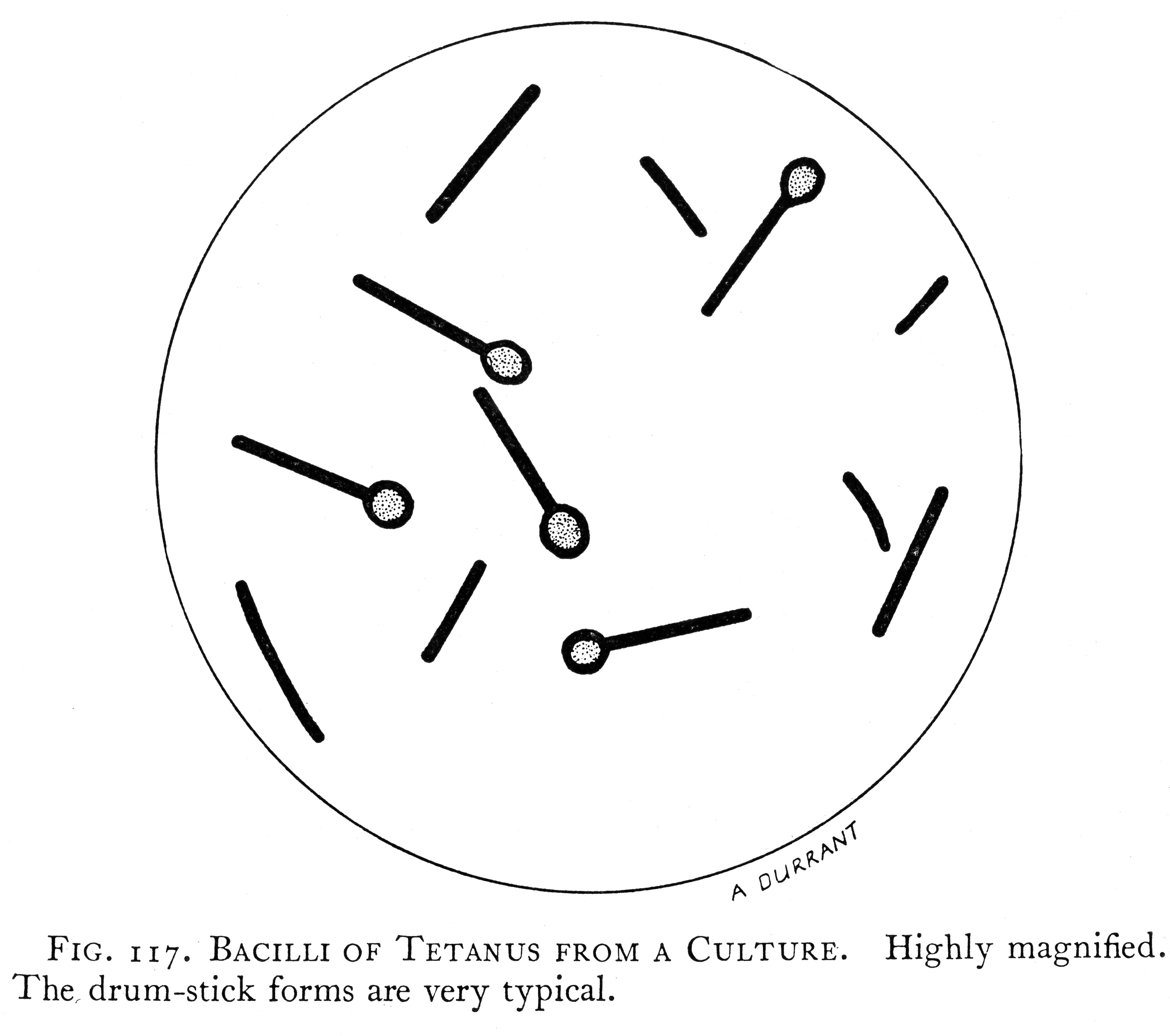 Bacilli of tetanus from a culture. General Collections Keywords: Bacteriology; Tetanus